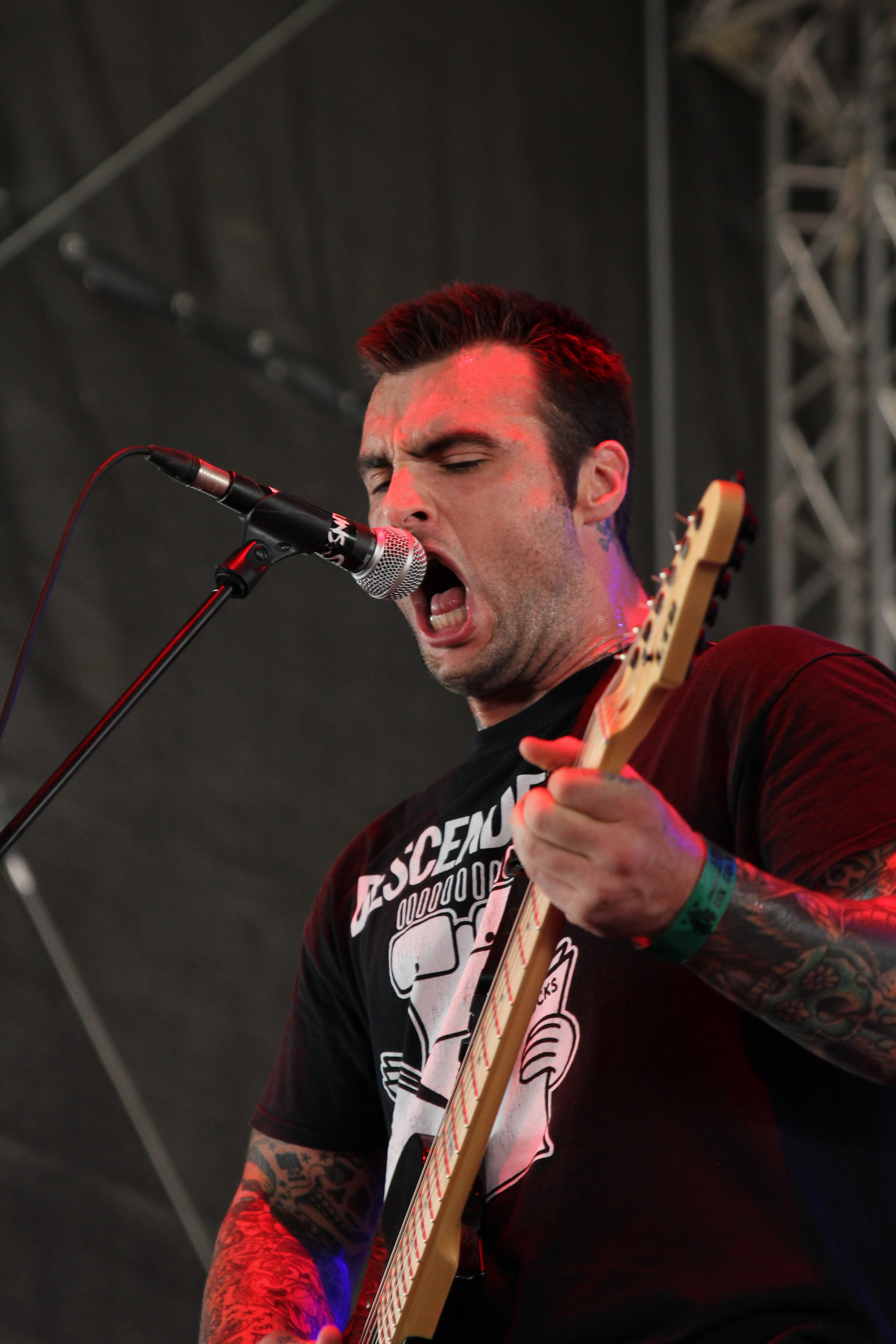 The American hardcore band Stick to Your Guns at the With Full Force festival 2014 in Roitzschjora/Germany